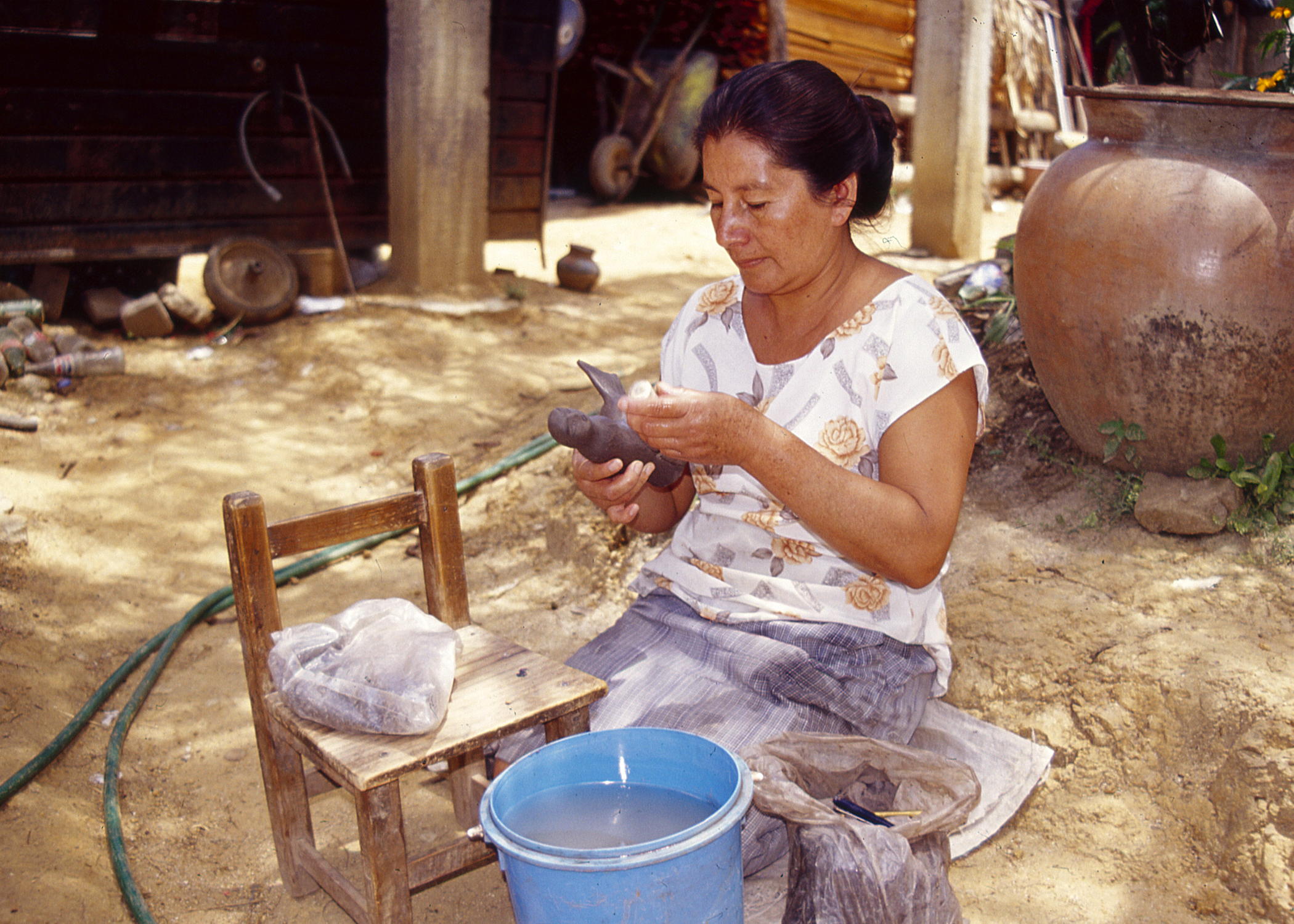 Alicia Leticia Garcia Blanco of Santa Maria Atzompa, Oaxaca, Mexico